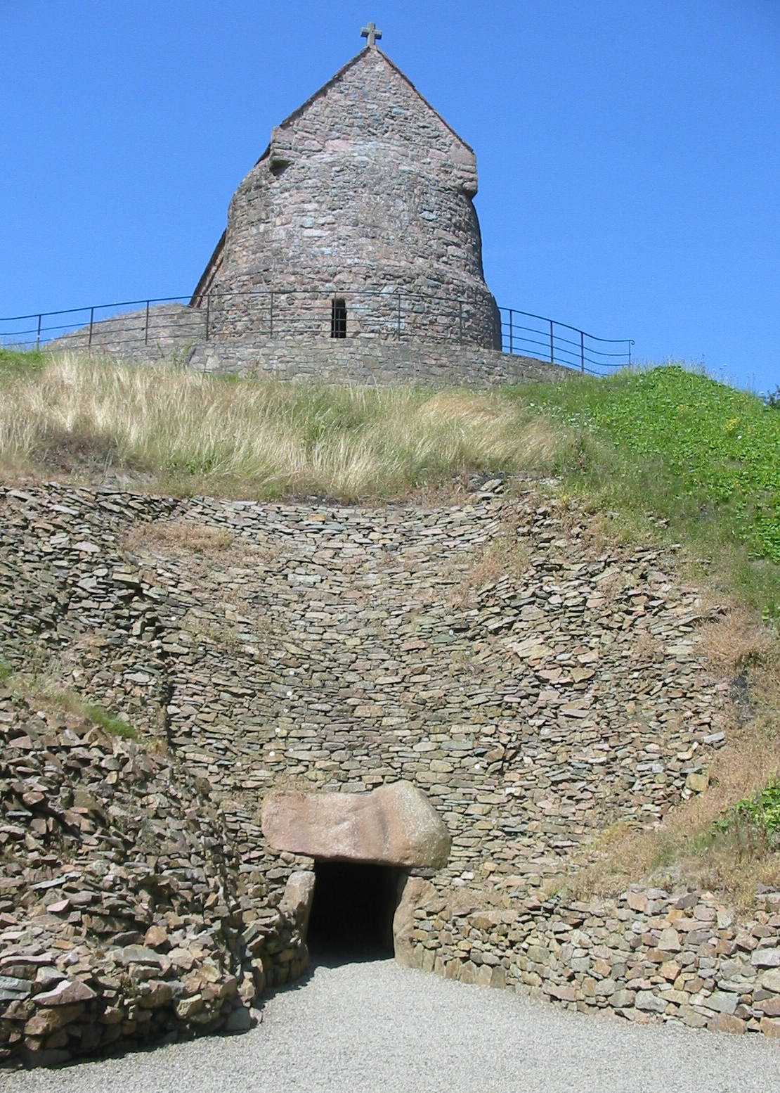 Restored entrance to Neolithic tomb, mediaeval chapel on mound, La Hougue Bie, Jersey Photo taken by Man vyi with Canon PowerShot A40 on 15/7/2005